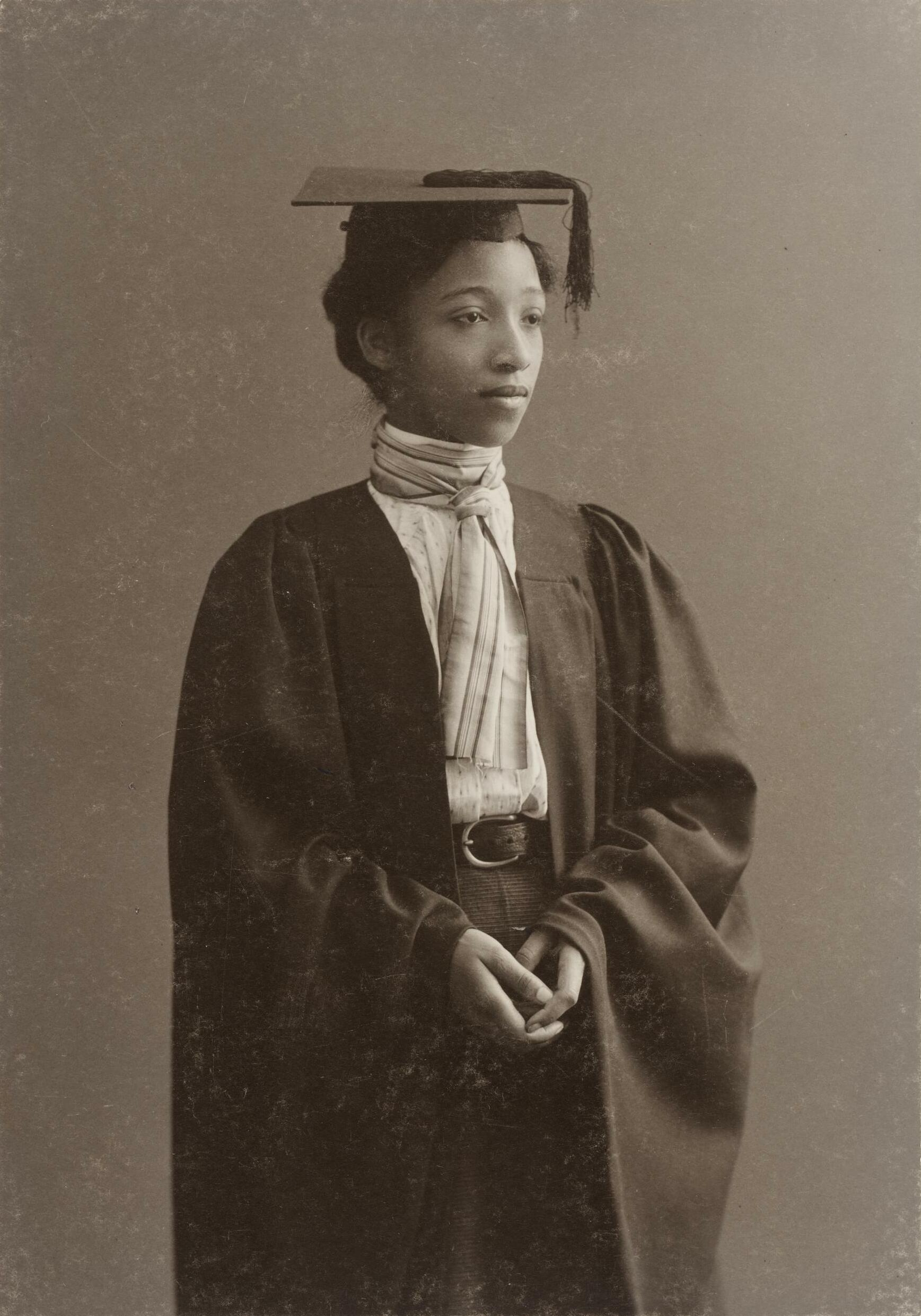 Portrait of Alberta Virginia Scott, ca. 1898. Photographer: Notman Photographic Co. Catalog Record Questions?